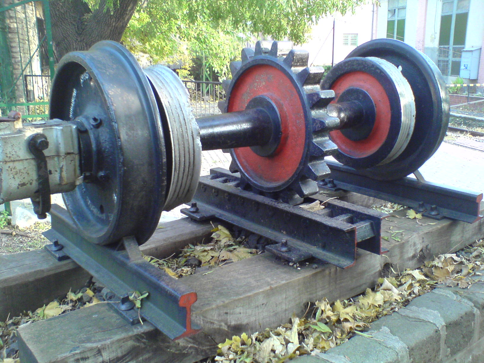 Cog-wheel from Budapest (Budapest Cog-wheel Railway)